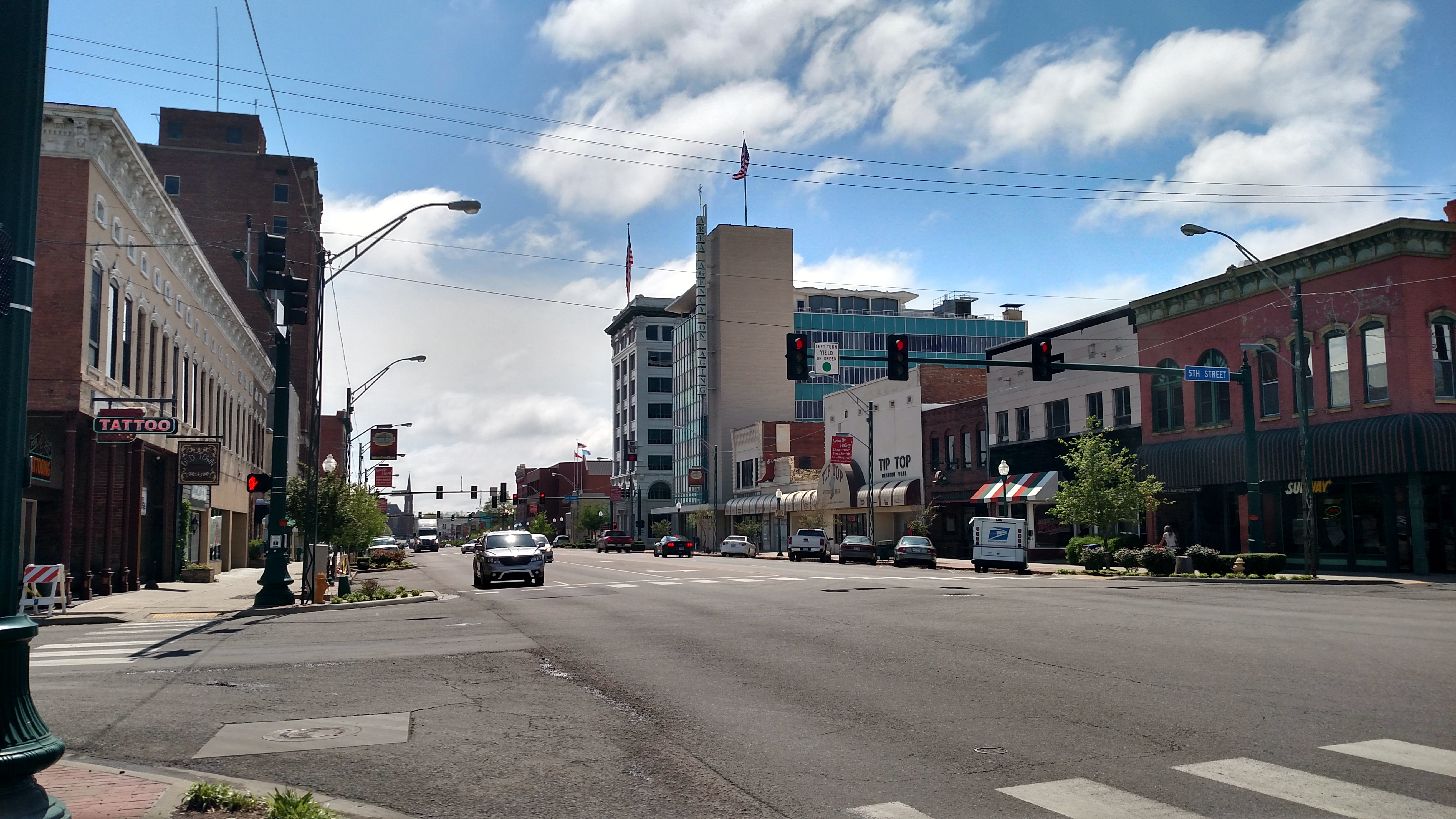 Downtown Fort Smith, AR, facing east